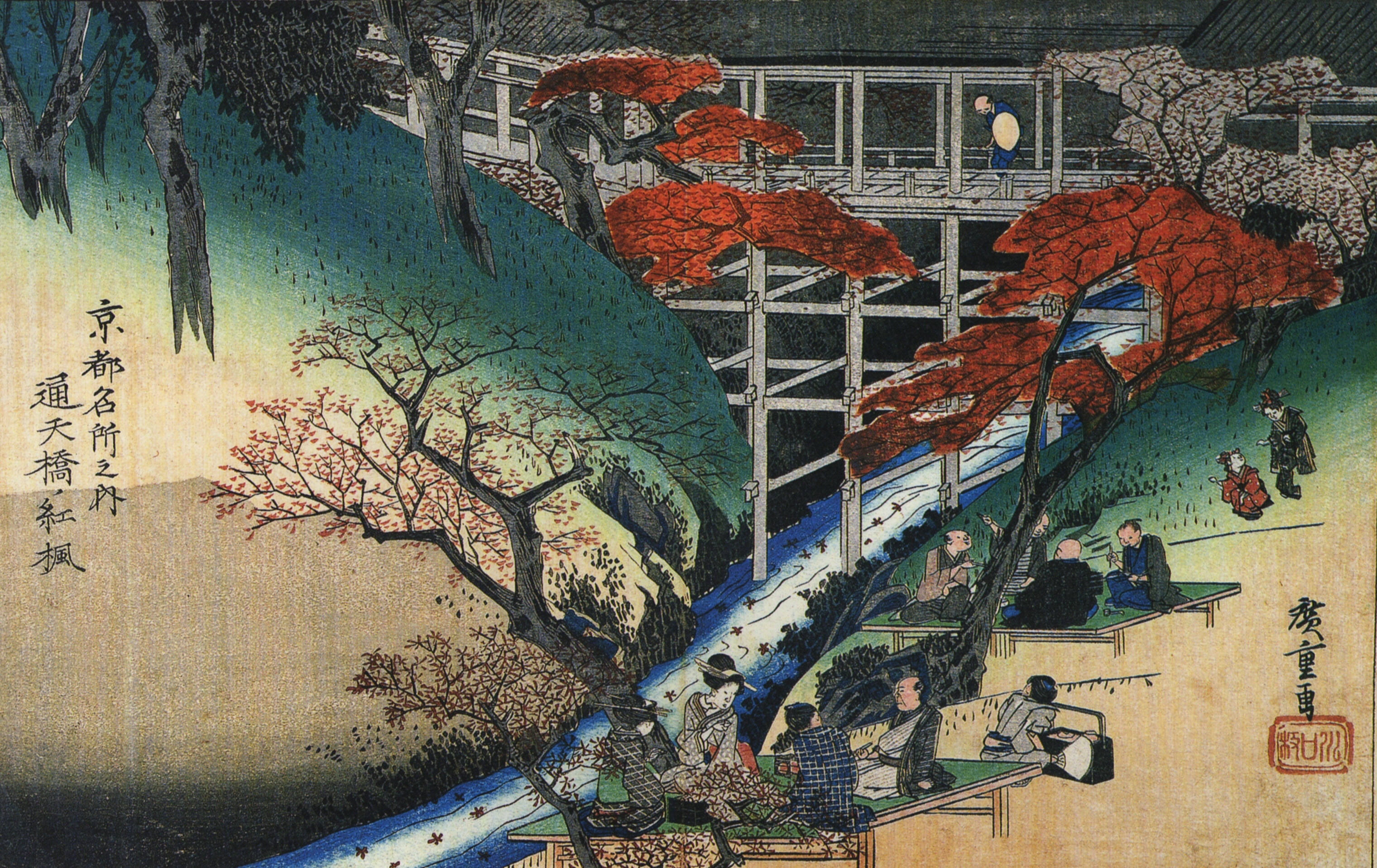 Views of Kyoto - 10. Merrymaking beneath Maple Trees at Tsuten Kyo